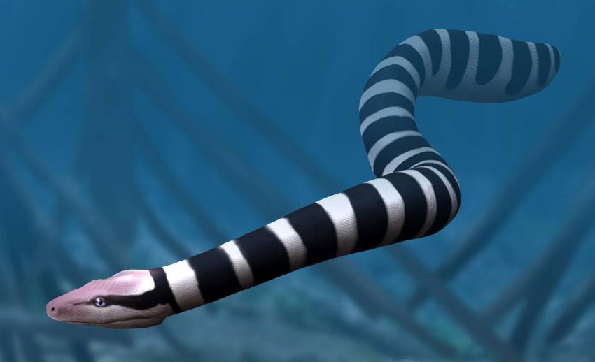 Crop of file in filename